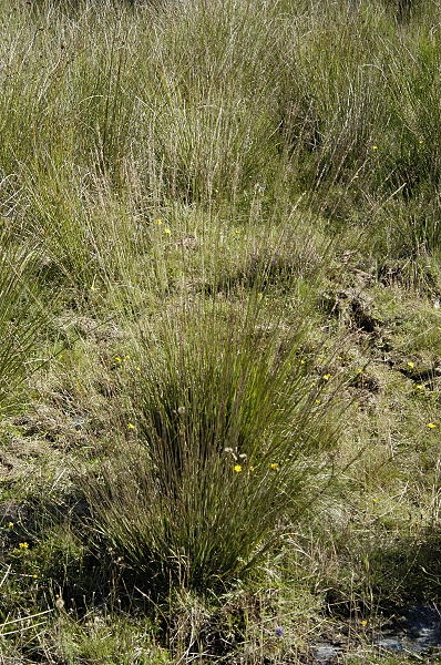 Picture taken in Commanster, Belgian High Ardennes . Species: Molinia caerulea